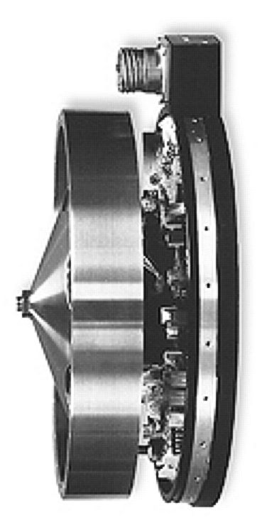 Photo of small reaction wheel